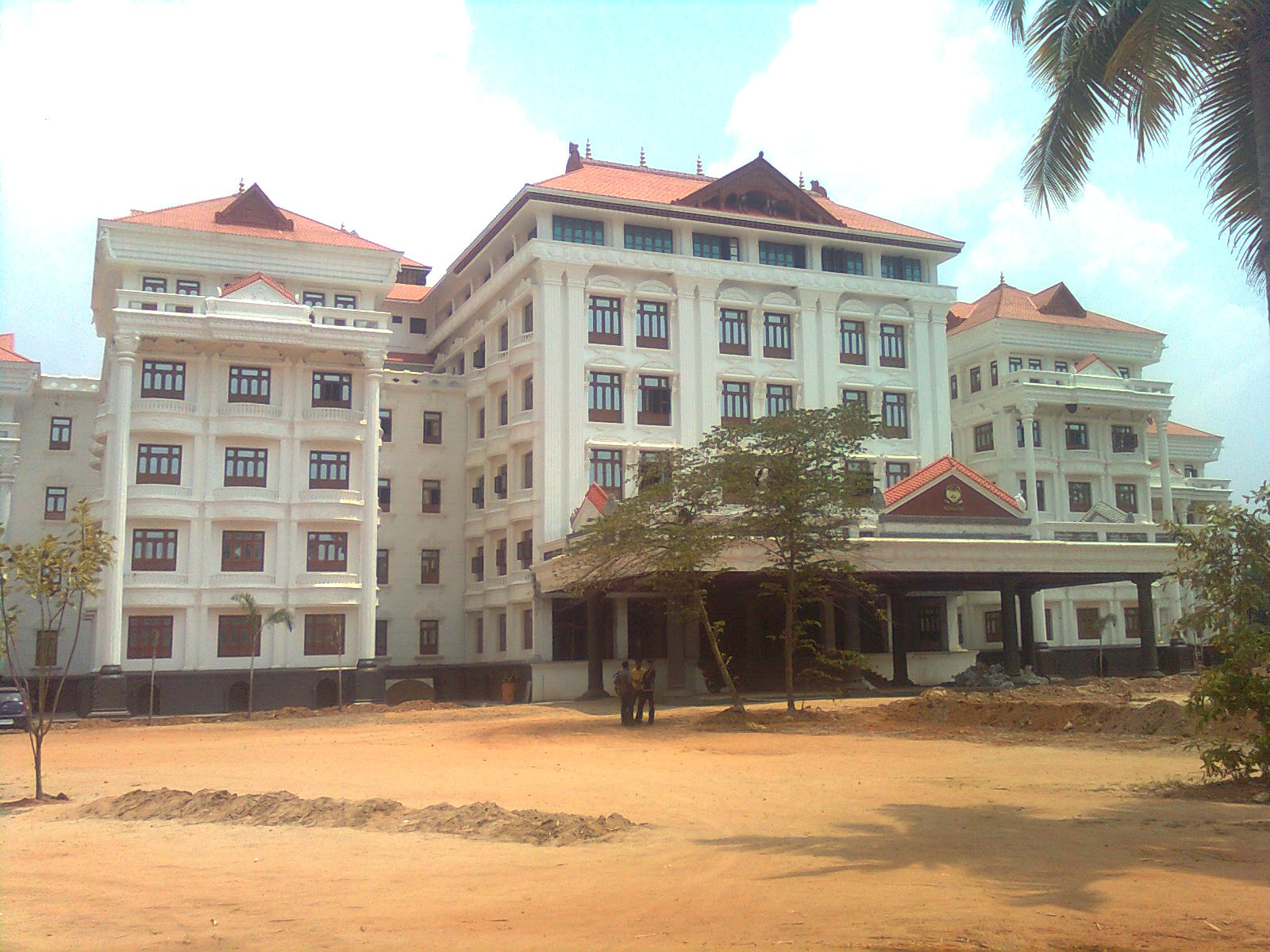 Amrita School of Engineering campus Vallikkavu.